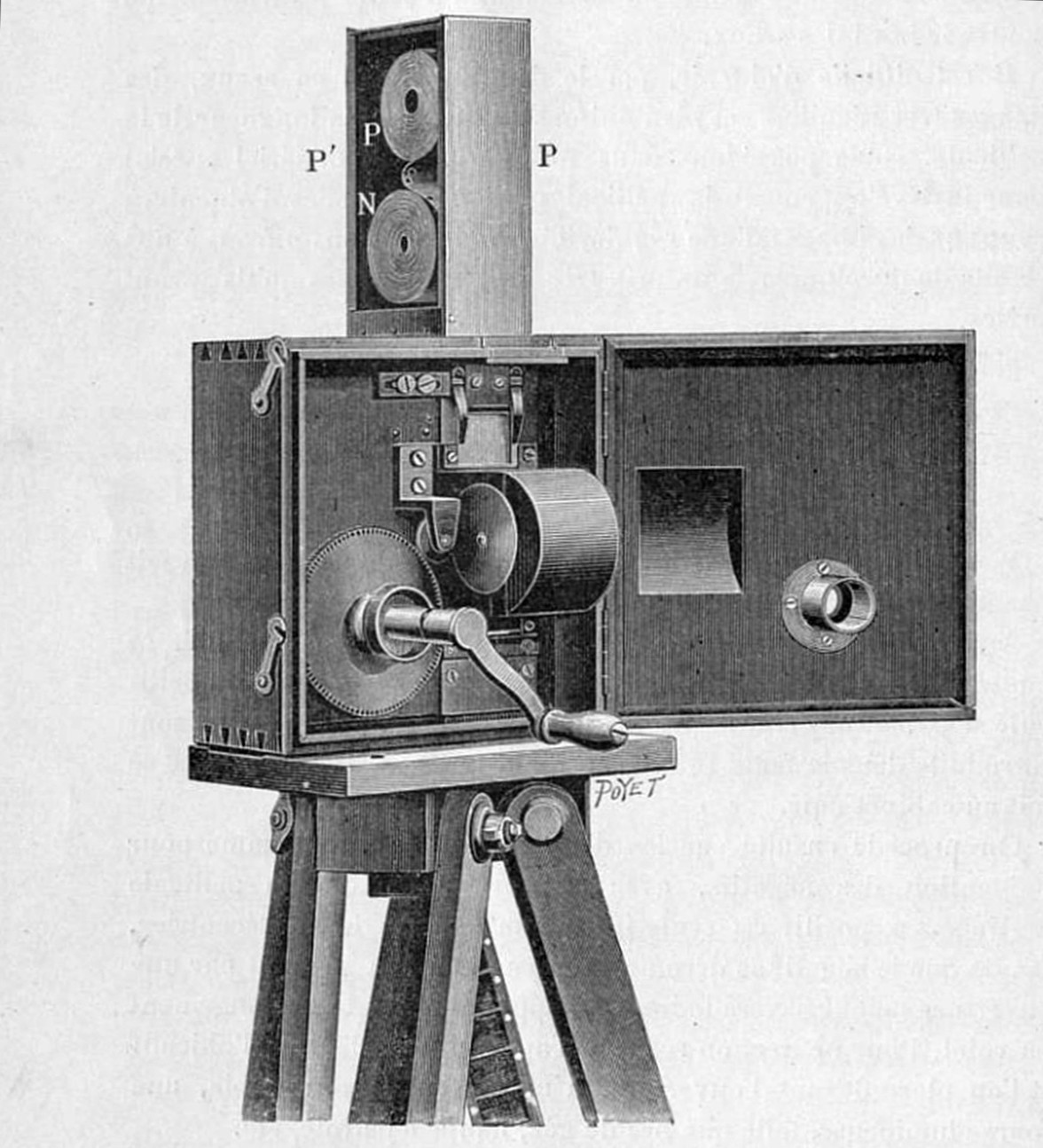 Cinematographe Camera mode projectionSCANNED the IMAGE (& processed it) from LE MAGAZINE DU SIECLE (year 1897) Beeing 114 years old there is no copyright